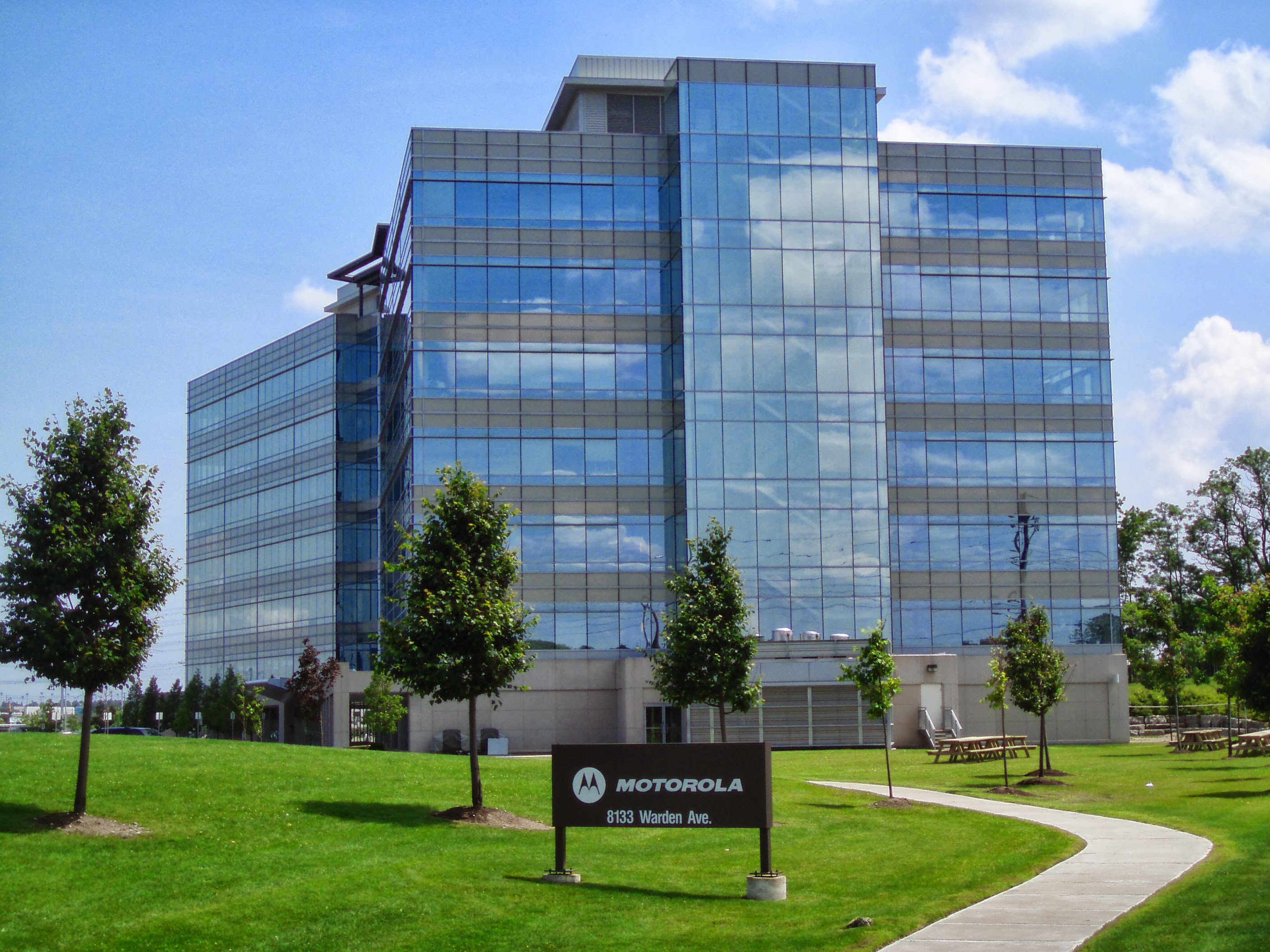 Motorola Canada at 8133 Warden Avenue, Markham, Canada Photo enhanced by Google+ Auto Enhance